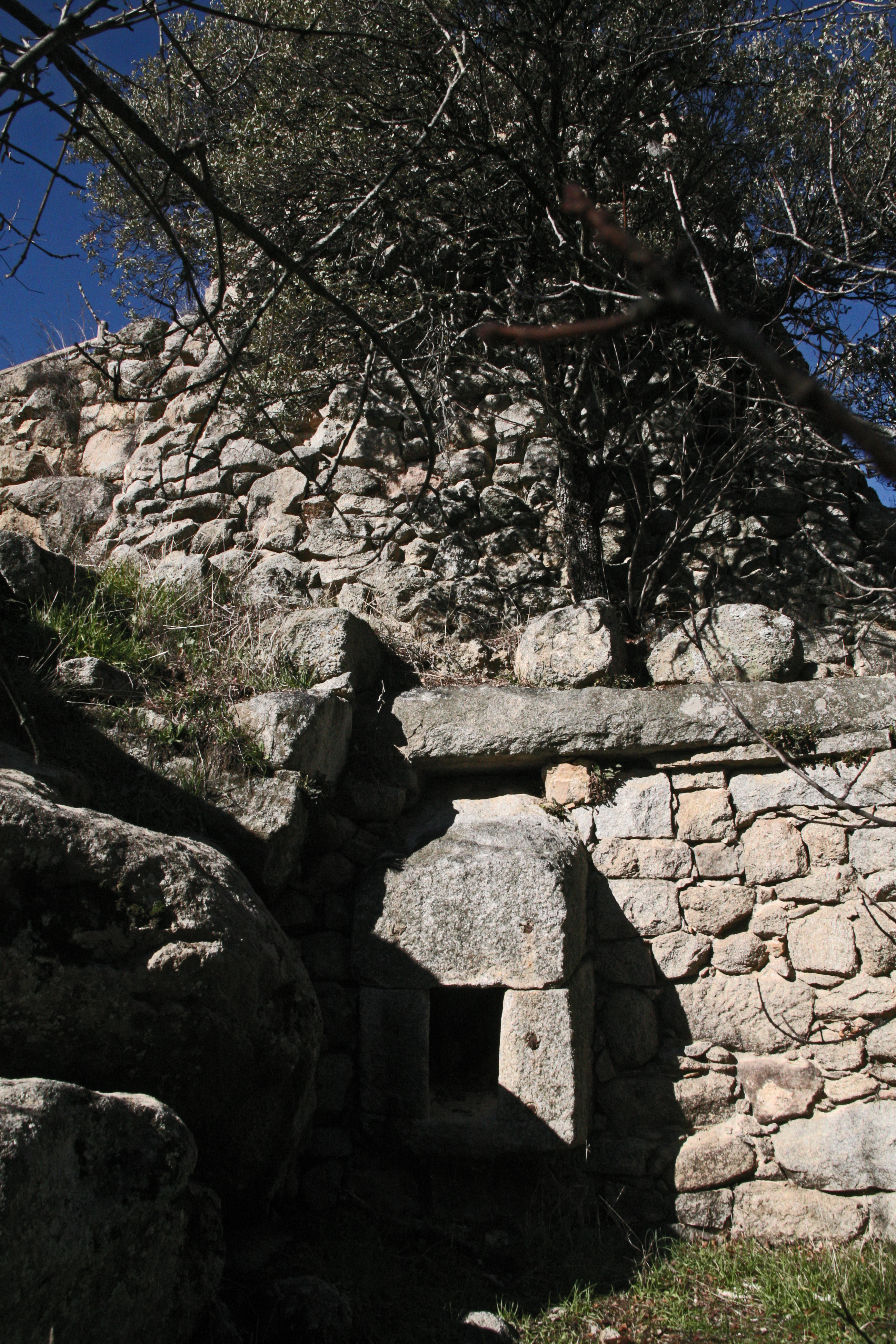 Medieval hydraulic mills of Navalagamella (Madrid)